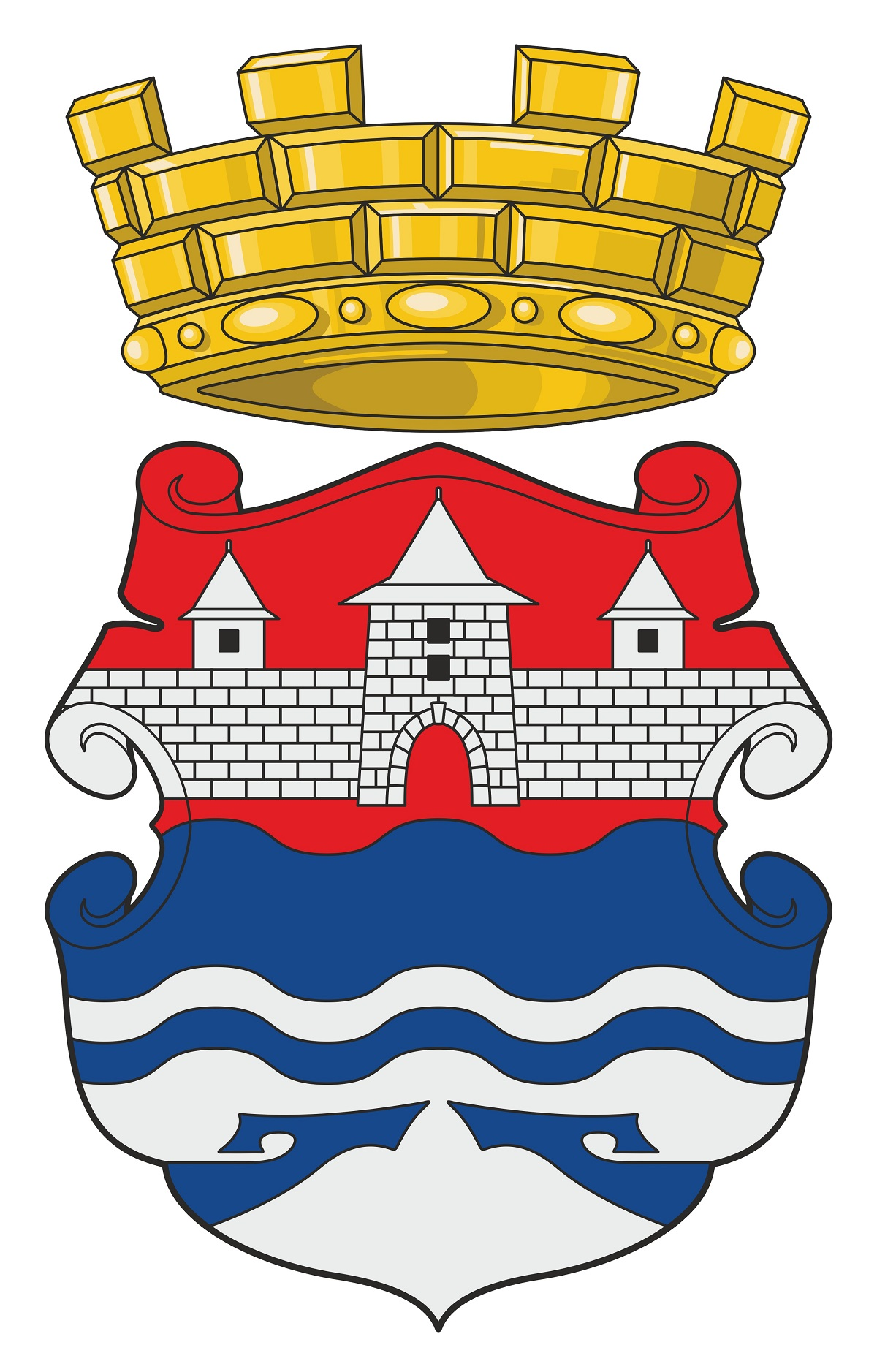 Medium Coat of Arms of Banja Luka Adopted on July 20, 2017